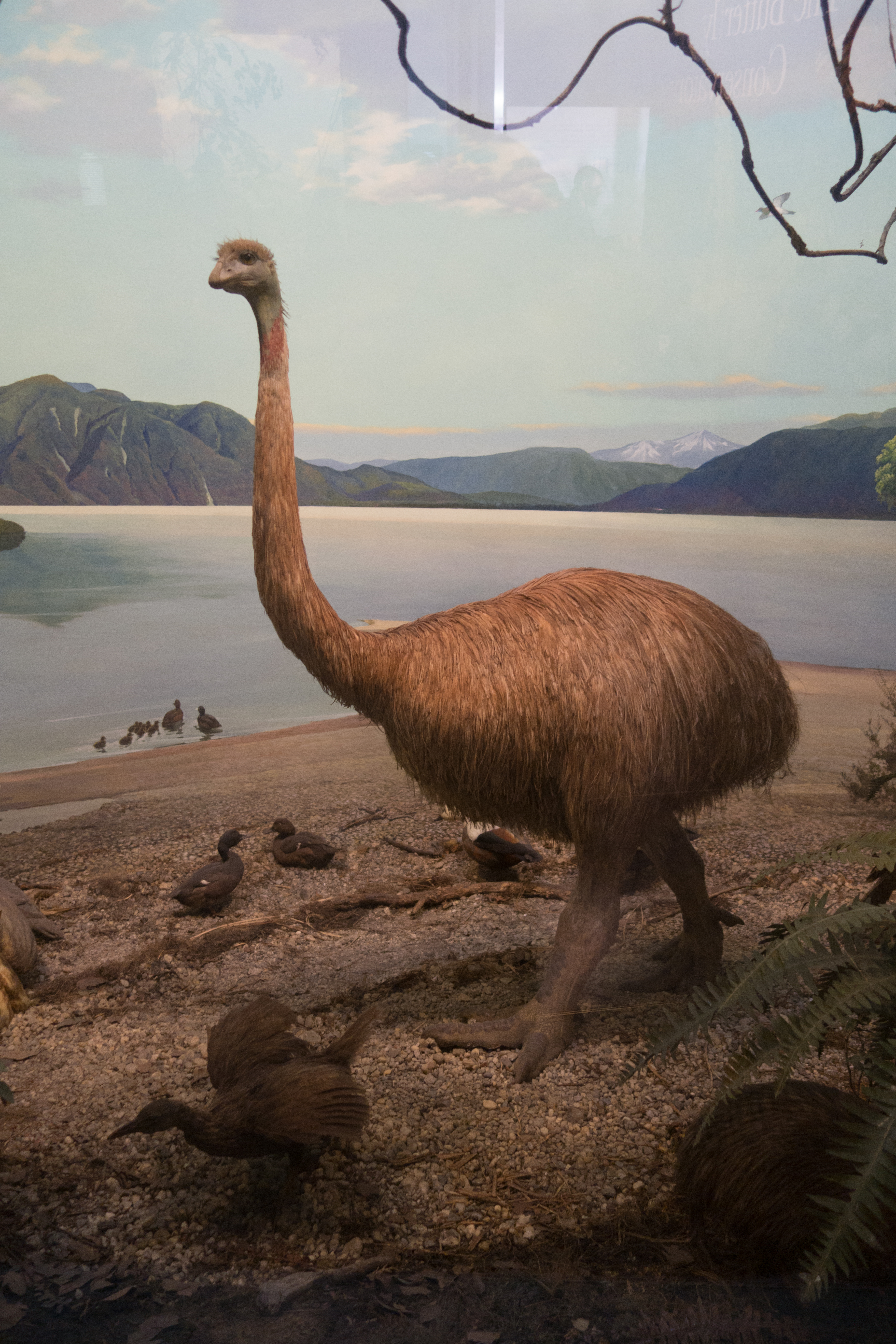 American Museum of Natural History, New York City, 2015